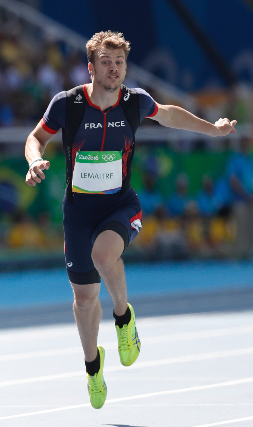 Men's 100 m sprint heats, Rio Olympics